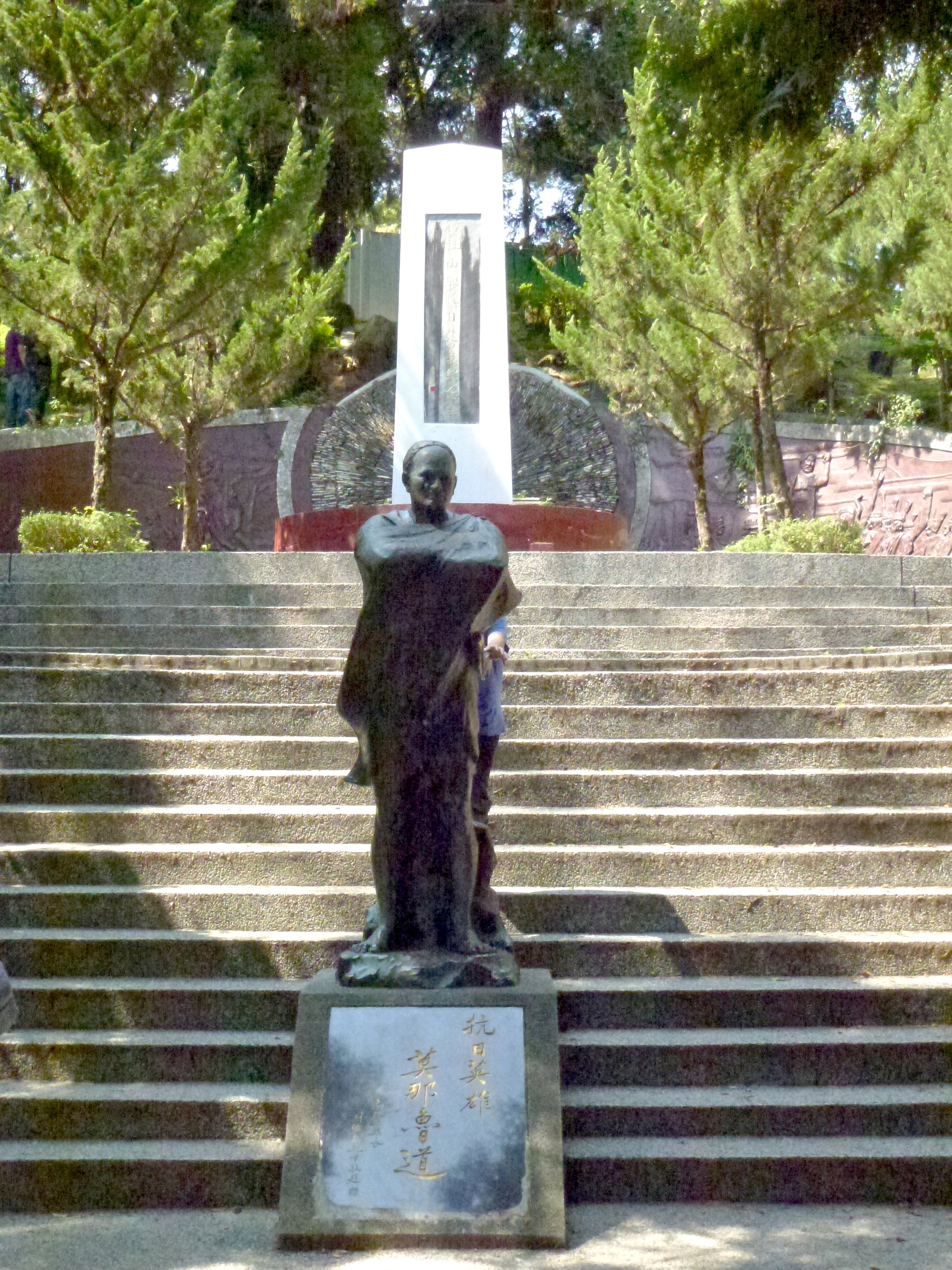 Mona Rudao Statue and Wushe Incident Monument.中文（中国大陆）: 莫那鲁道铜像和雾社抗日纪念碑。中文（台灣）: 莫那魯道銅像和霧社抗日紀念碑。